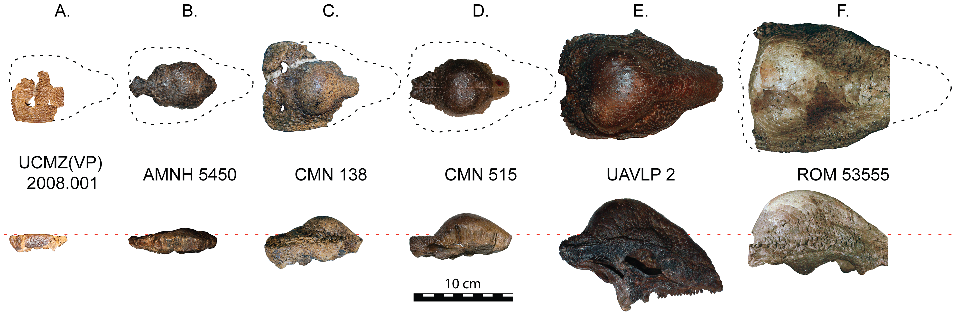 Growth series of Stegoceras validum in dorsal (top) and lateral (bottom) views. This series depicts the transition from a flat-headed to domed frontoparietal morphology that occurred through ontogeny in this taxon. A, UCMZ(VP) 2008.001 B, AMNH 5450 (holotype of Ornatotholus browni); C, CMN 138; D, CMN 515 (lectotype of Stegoceras validum); E, UALVP 2; F, ROM 53555. Portions of ROM 53555 are reconstructed including the nasals (cropped) and the lateral margins. Reconstructed portions are visible as dark grey areas in the CT images (Fig. 9).